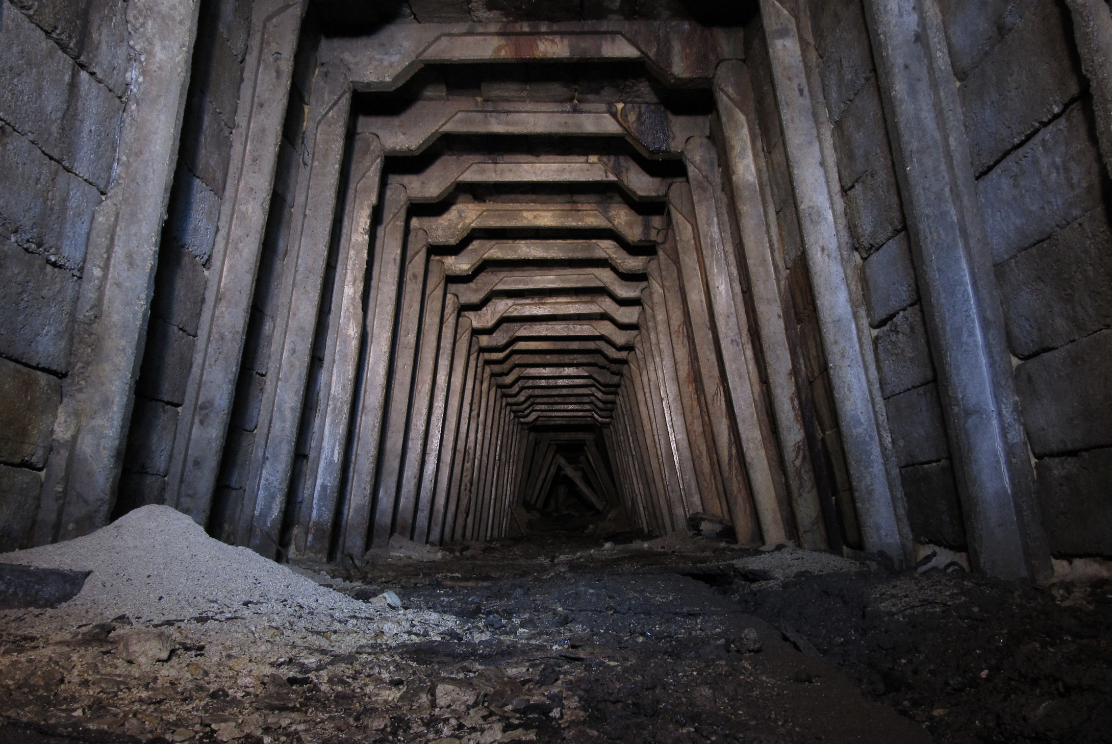 Uranium mine. mоunt Beshtau, adit tunnel #21b